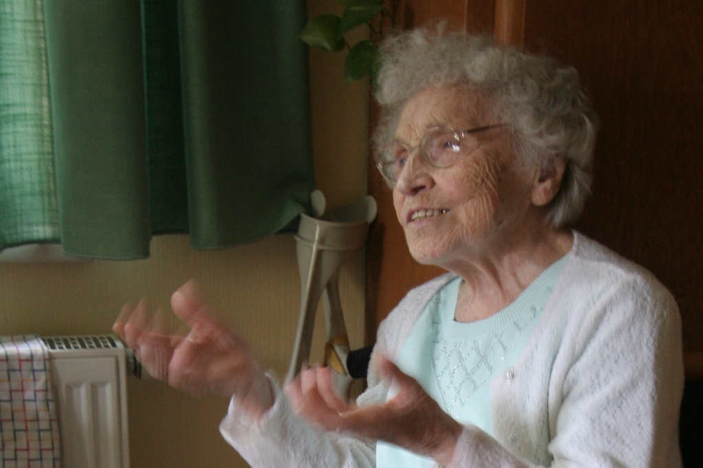 Magdalena Kupfer 98 yaers old